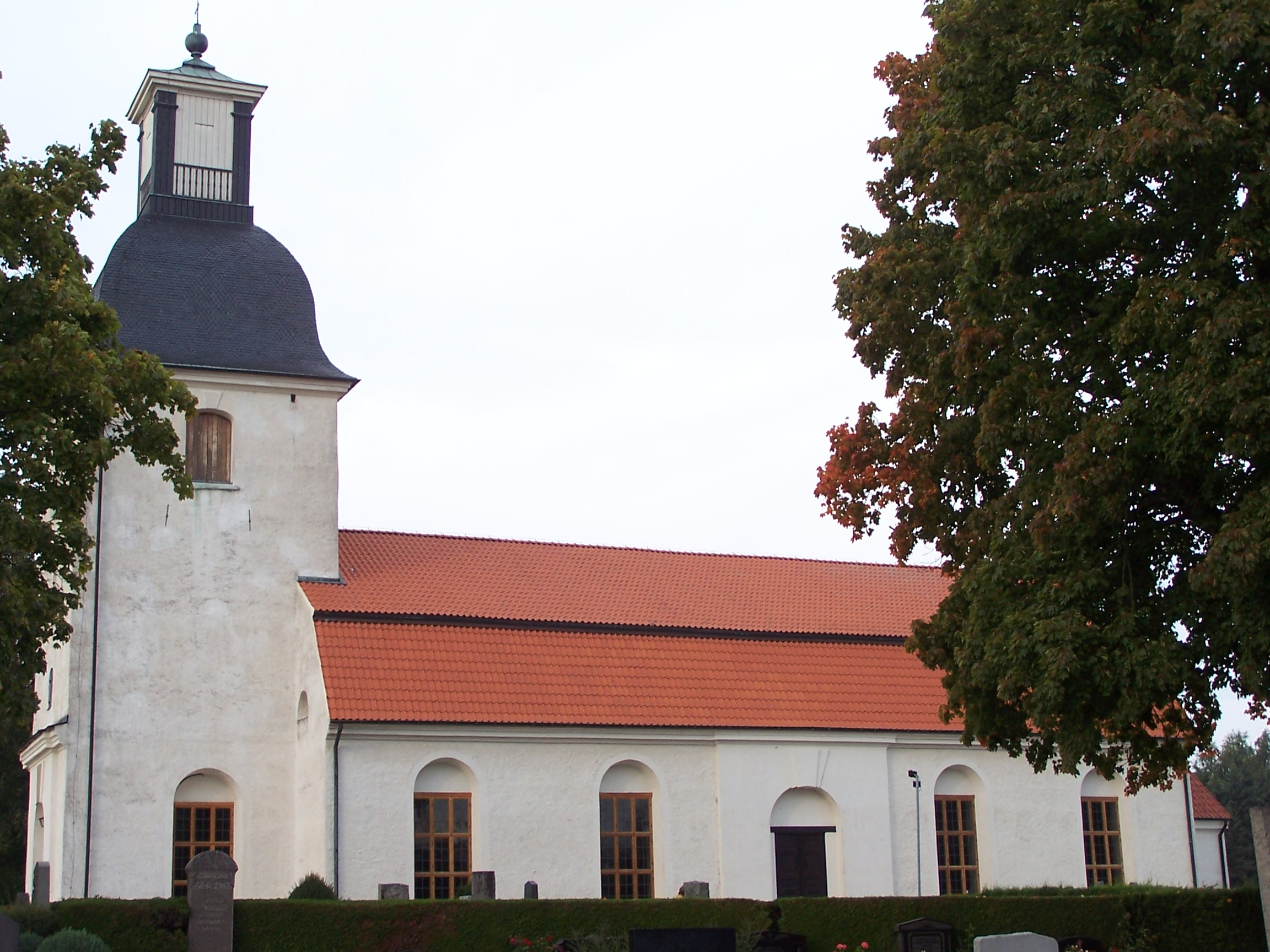 Gammalstorp church, near Sölvesborg, Sweden.